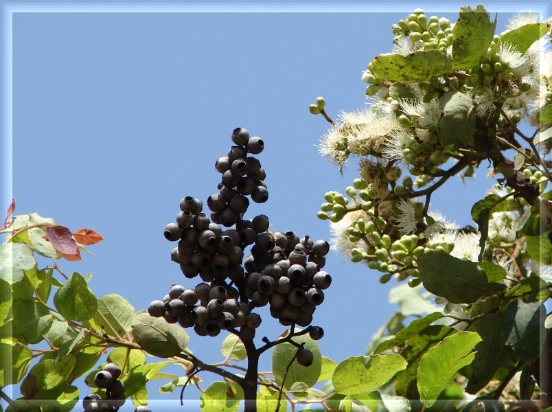 Corymbia torelliana